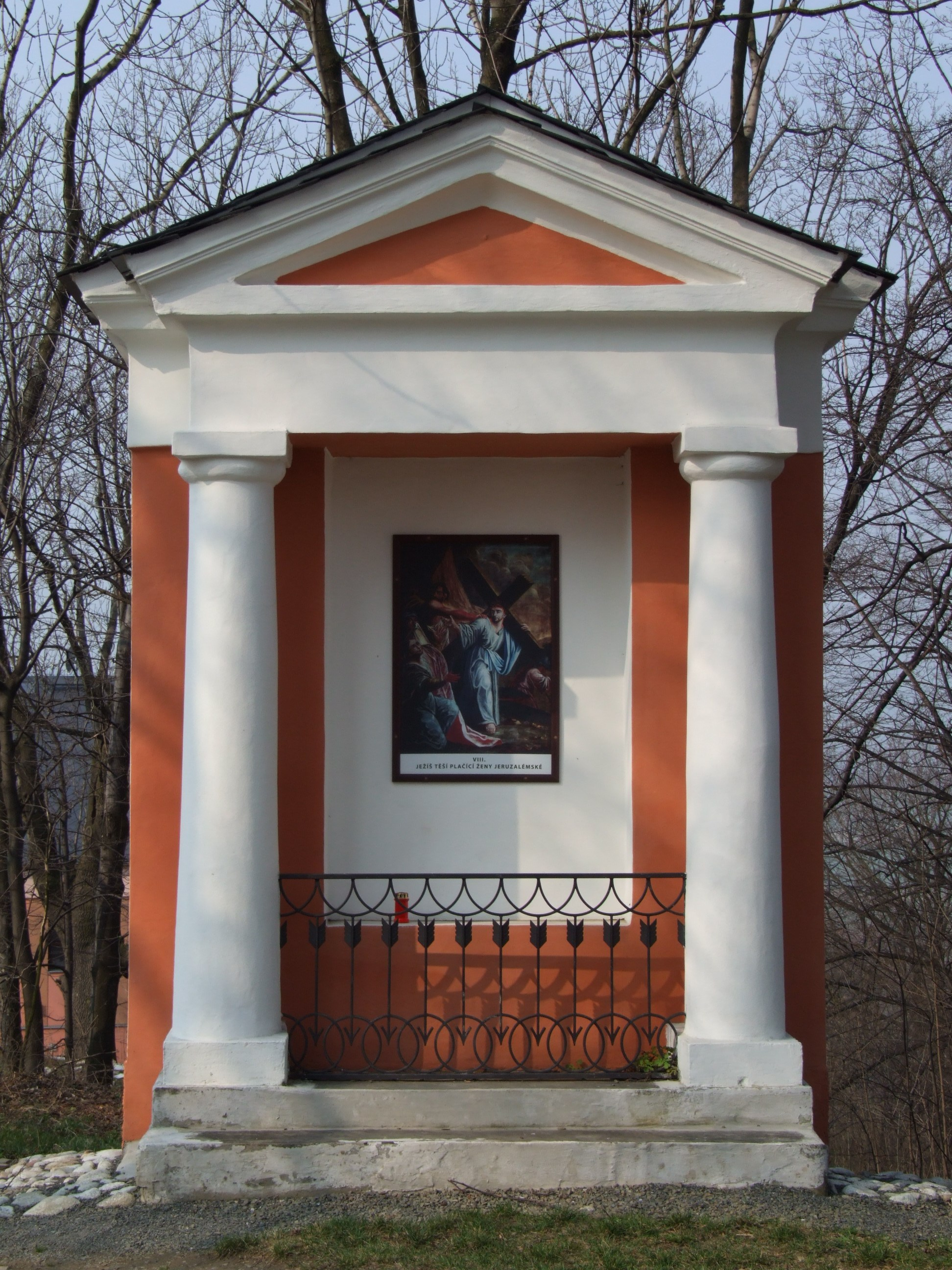 Way of the Cross in mount Cvilin (Krnov, Czech Silesia) - VIII station.